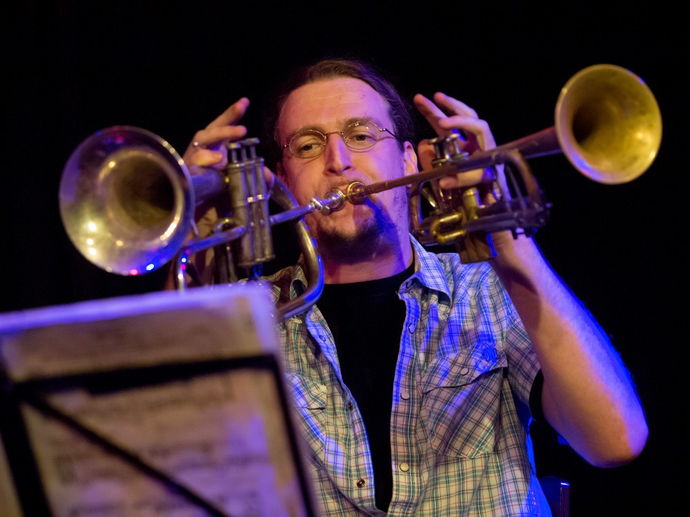 Johannes Bär, Jazz trumpeter; Picture taken in Jazz Club Unterfahrt, Munich/Bavaria